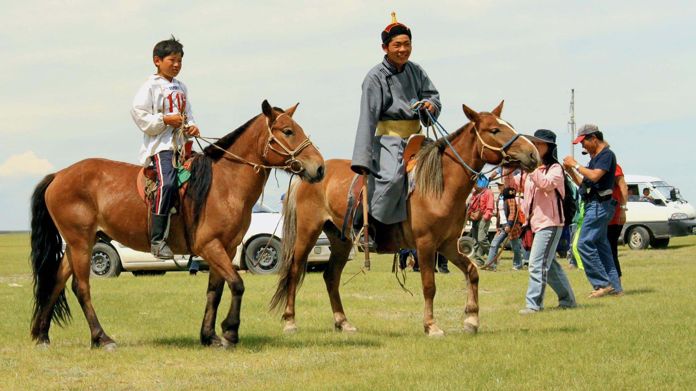 Horse riders on the steppe at the local Naadam festival. Kharkhorin, Övörkhangai Province, Mongolia.